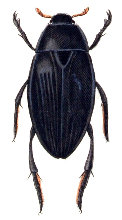 Hydrophilus piceus, from Calwer's Käferbuch, Table 8, Picture 30. Taxonomy was updated to 2008, using mostly the sites Fauna Europaea and BioLib. Please contact Sarefo if the determination is wrong!